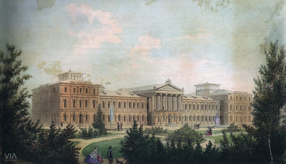 University of Bucharest project